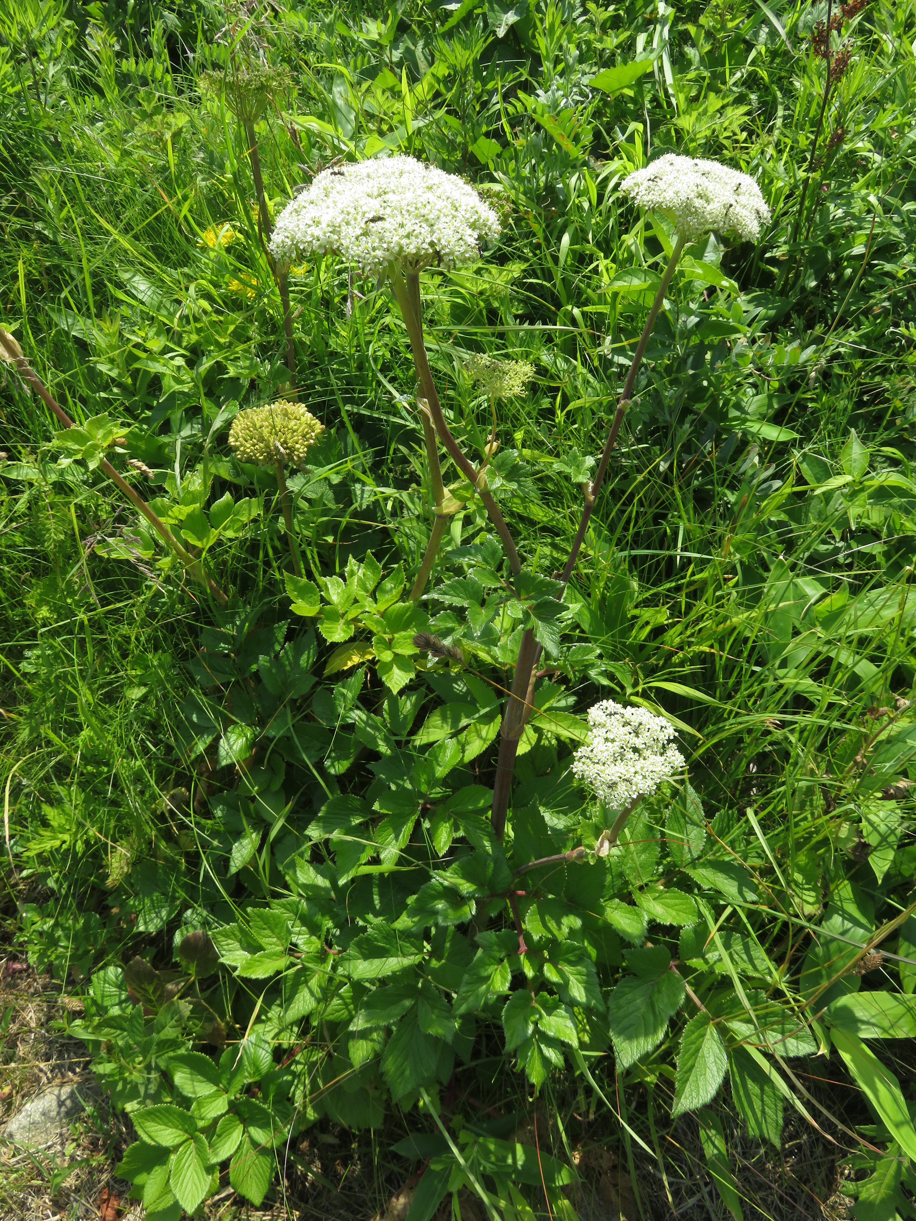 Coelopleurum gmelinii, Tanesashi Coast, Aomori pref., Japan